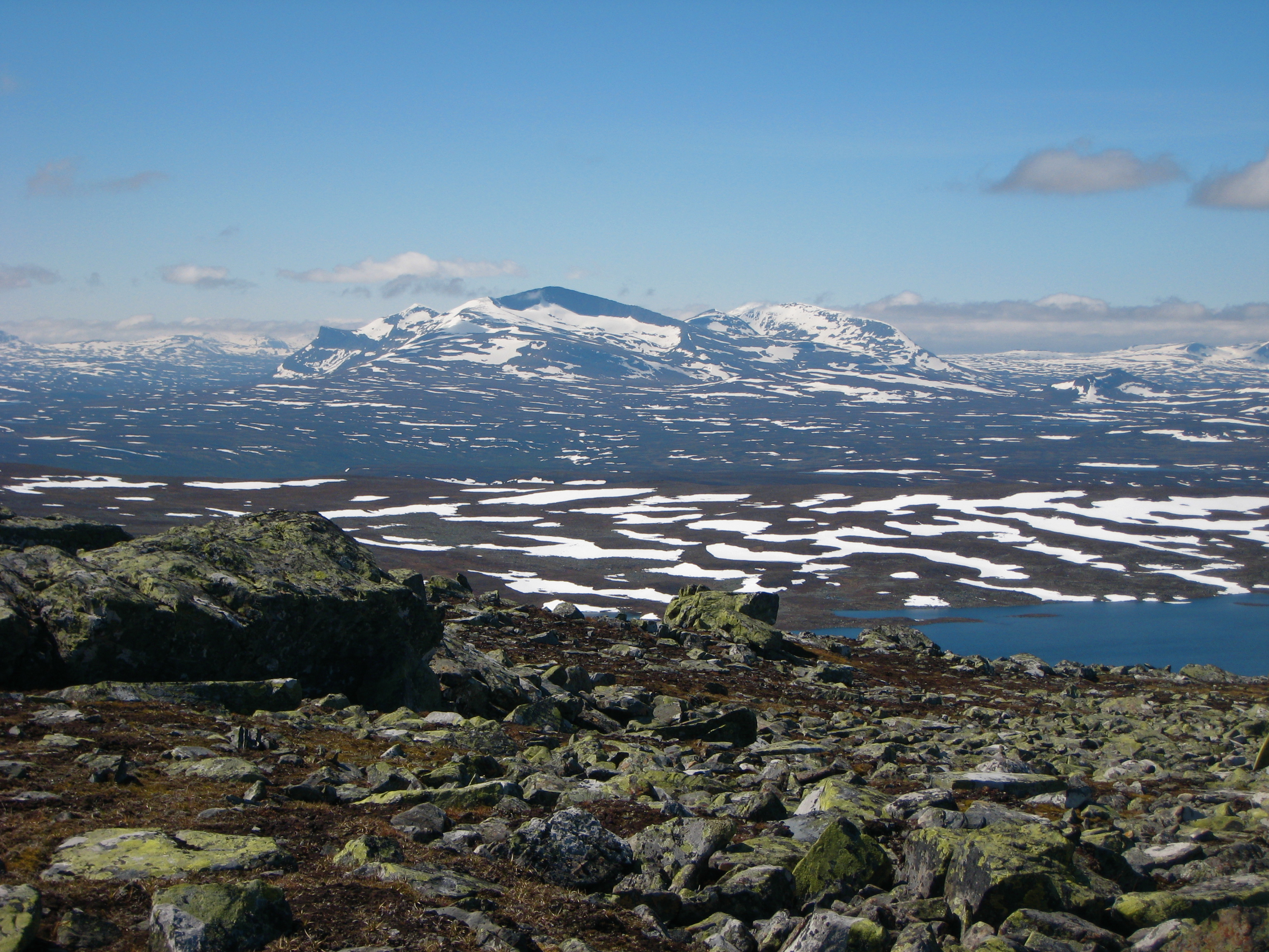 Mount Helags from Dunsjöfjället.